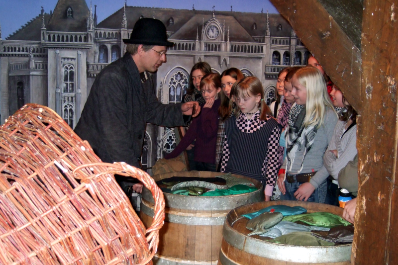 Bremer Geschichtenhaus („Story house of Bremen“) at Schnoor quarter: Chat with Heini Holtenbeen